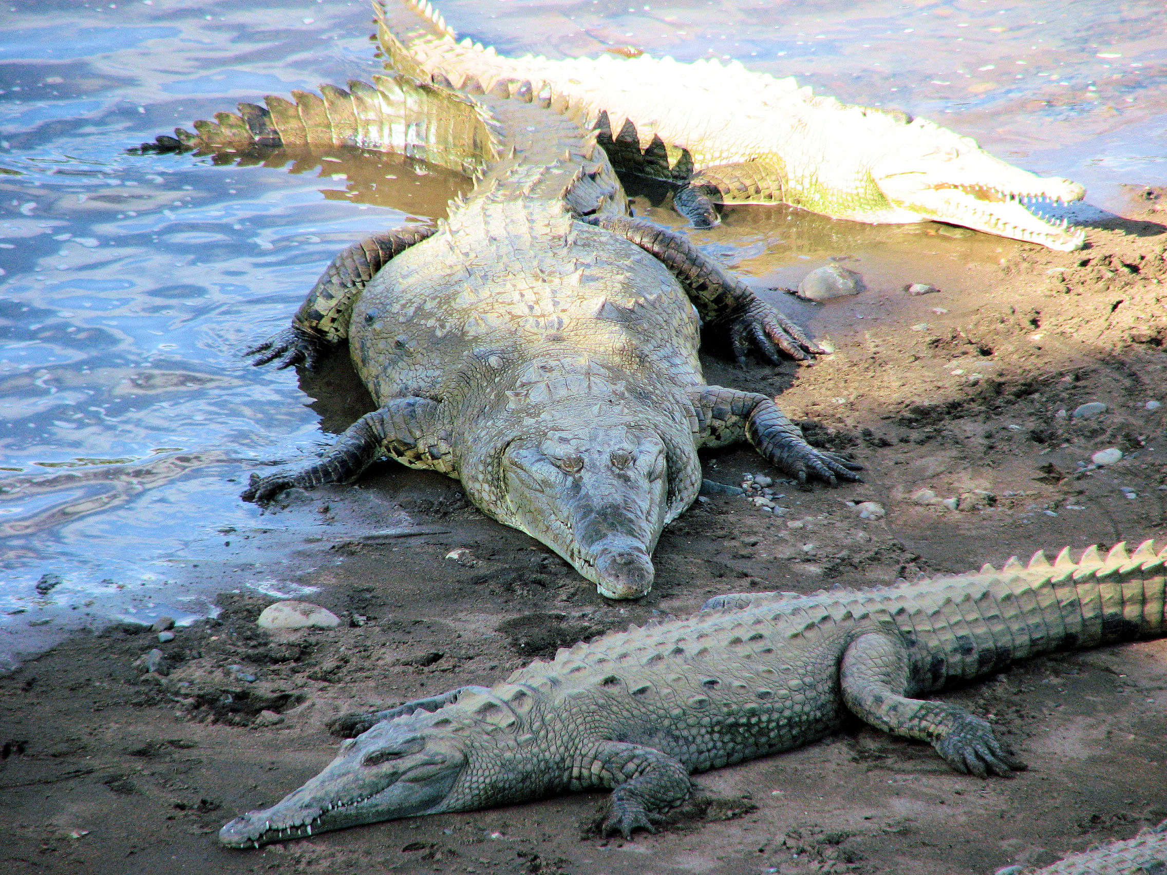 American Crocodiles (Crocodylus acutus) under bridge on road to San Jose, Costa Rica